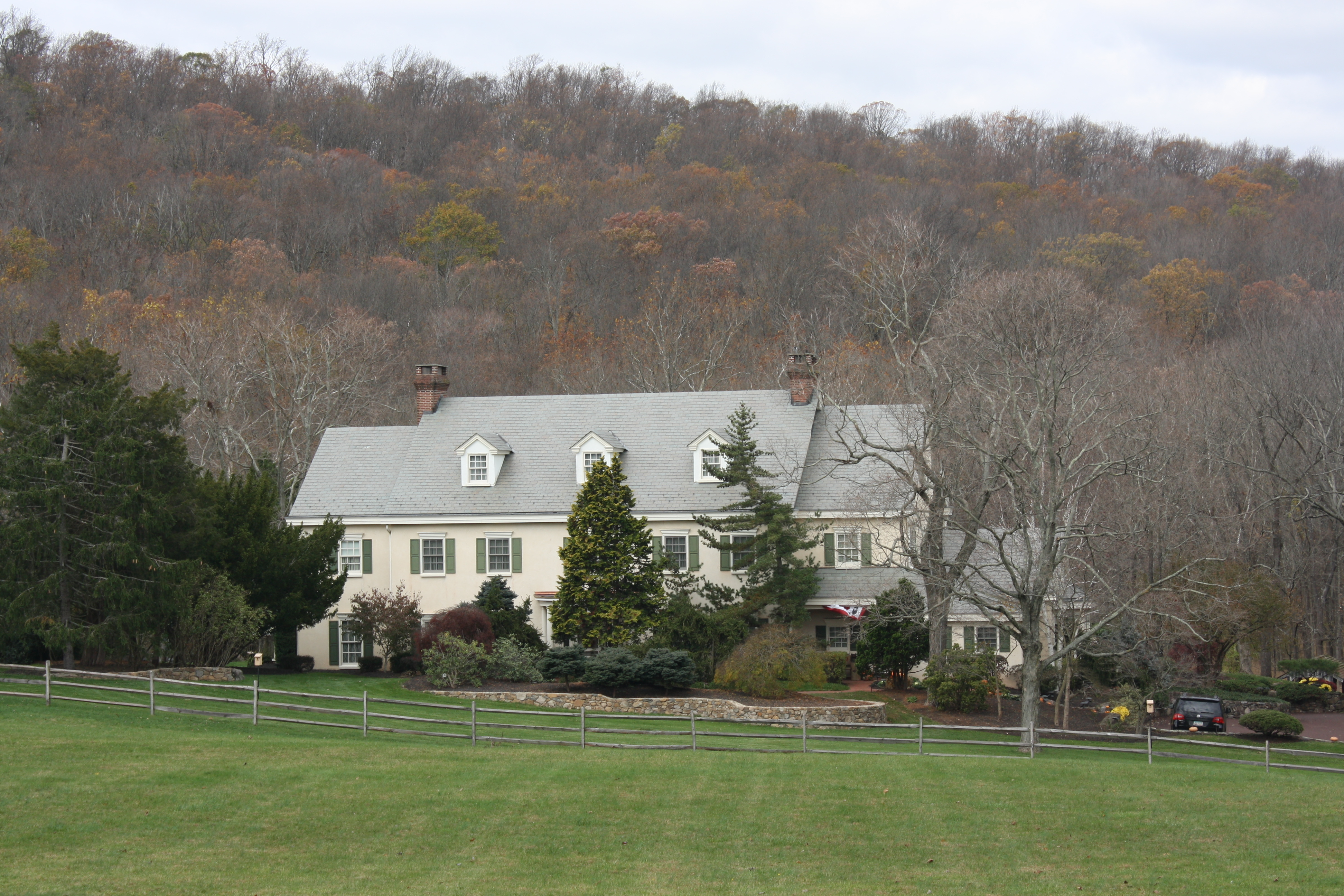 Keith House, also known as Washington's Headquarters or Headquarters Farm, is a historic house in Upper Makefield Township, Bucks County, Pennsylvania. Object location40° 17′ 44″ N, 74° 56′ 49″ W